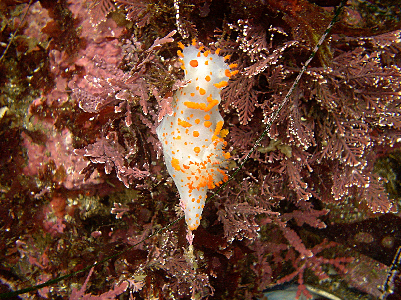 The clown Nudibranch,Triopha catalinae in California tide pools.